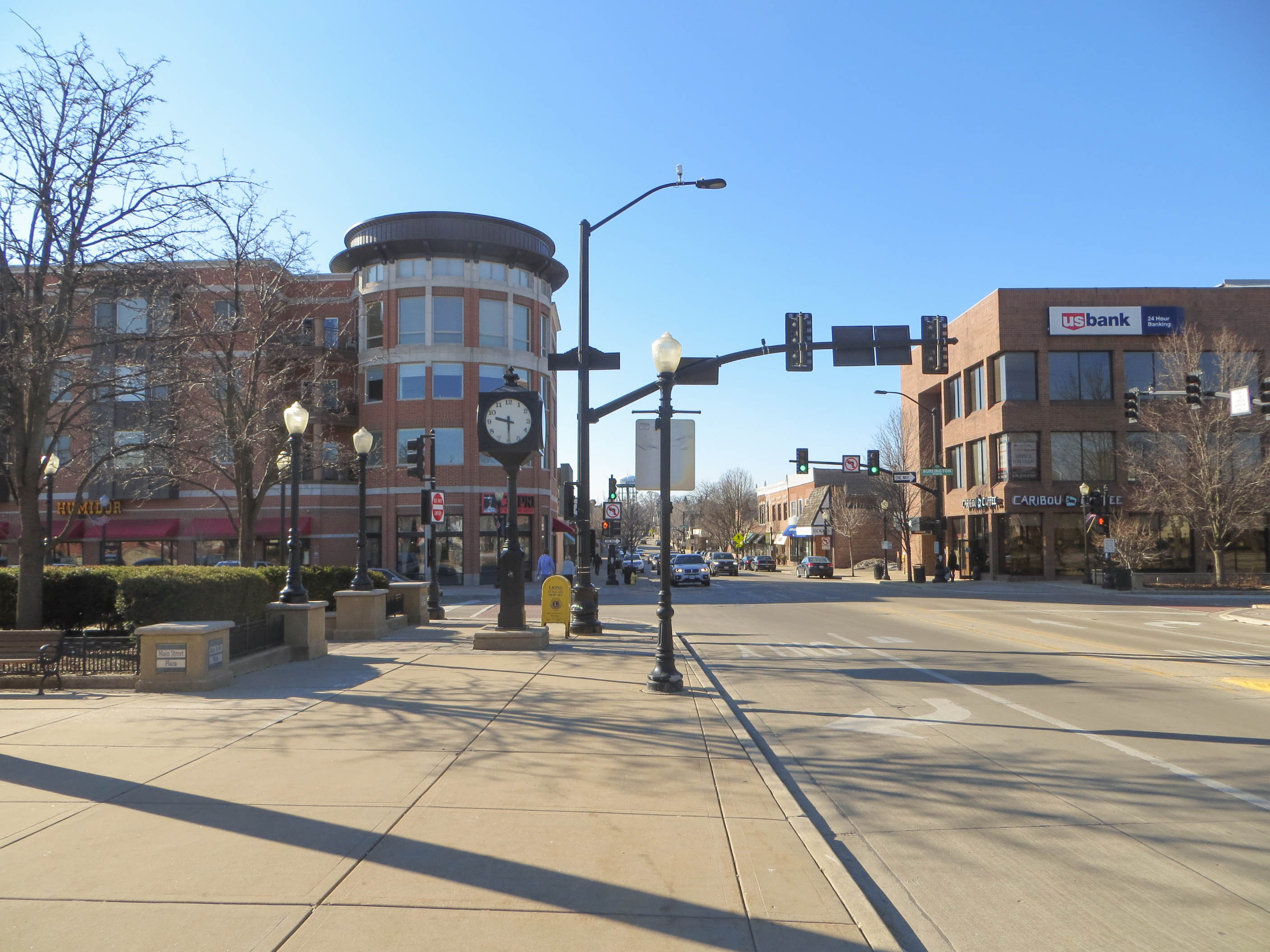 20140323 05 Main Street, Downers Grove, Illinois